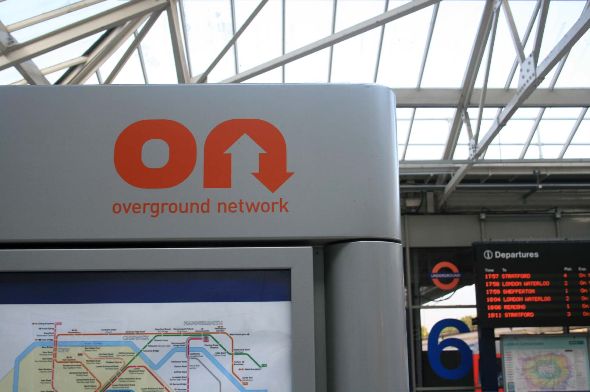 A sign in Richmond Station, London, displaying the "ON" branding of the defunct Overground Network.